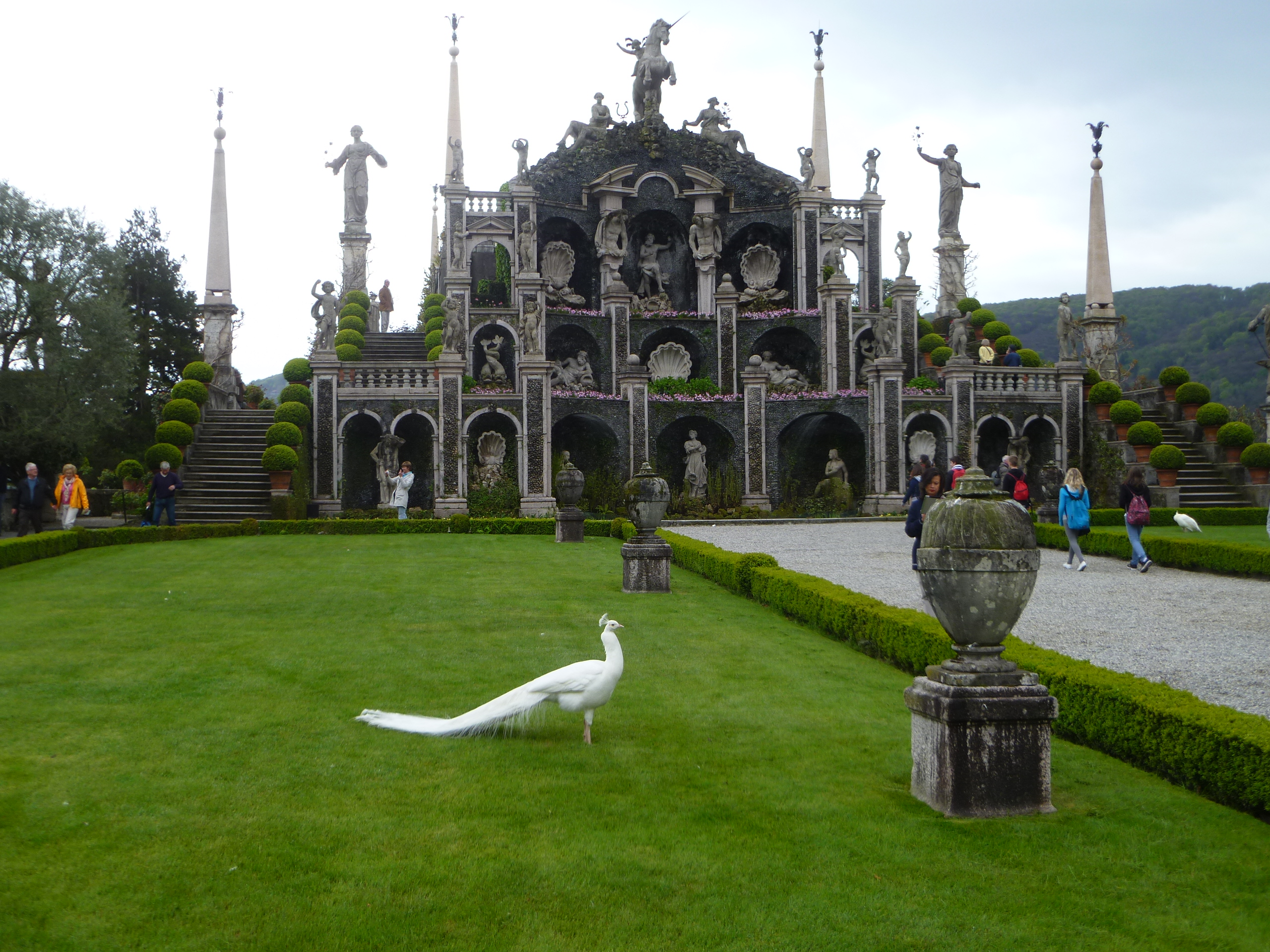 White peacock in the botanical gardens of the Palazzo Borromeo (in the background : the Amphitheatre), Isola Bella, Italy